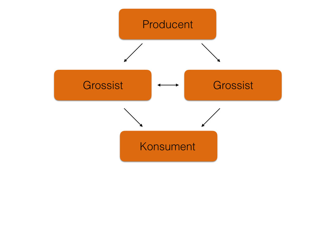 horizontal marketing system